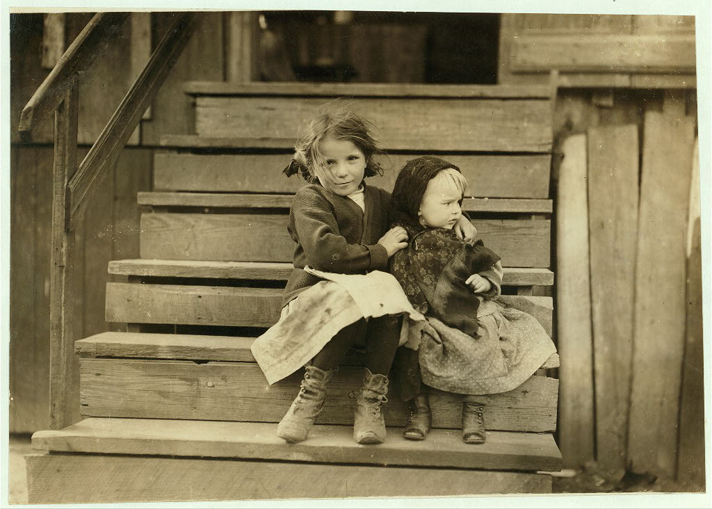 Black and white photo of two girls sitting together on a staircase. Original description: Little Julia tending the baby at home. All the older ones are at the factory. She shucks also. Alabama Canning Co.,. Location: Bayou La Batre, Alabama.